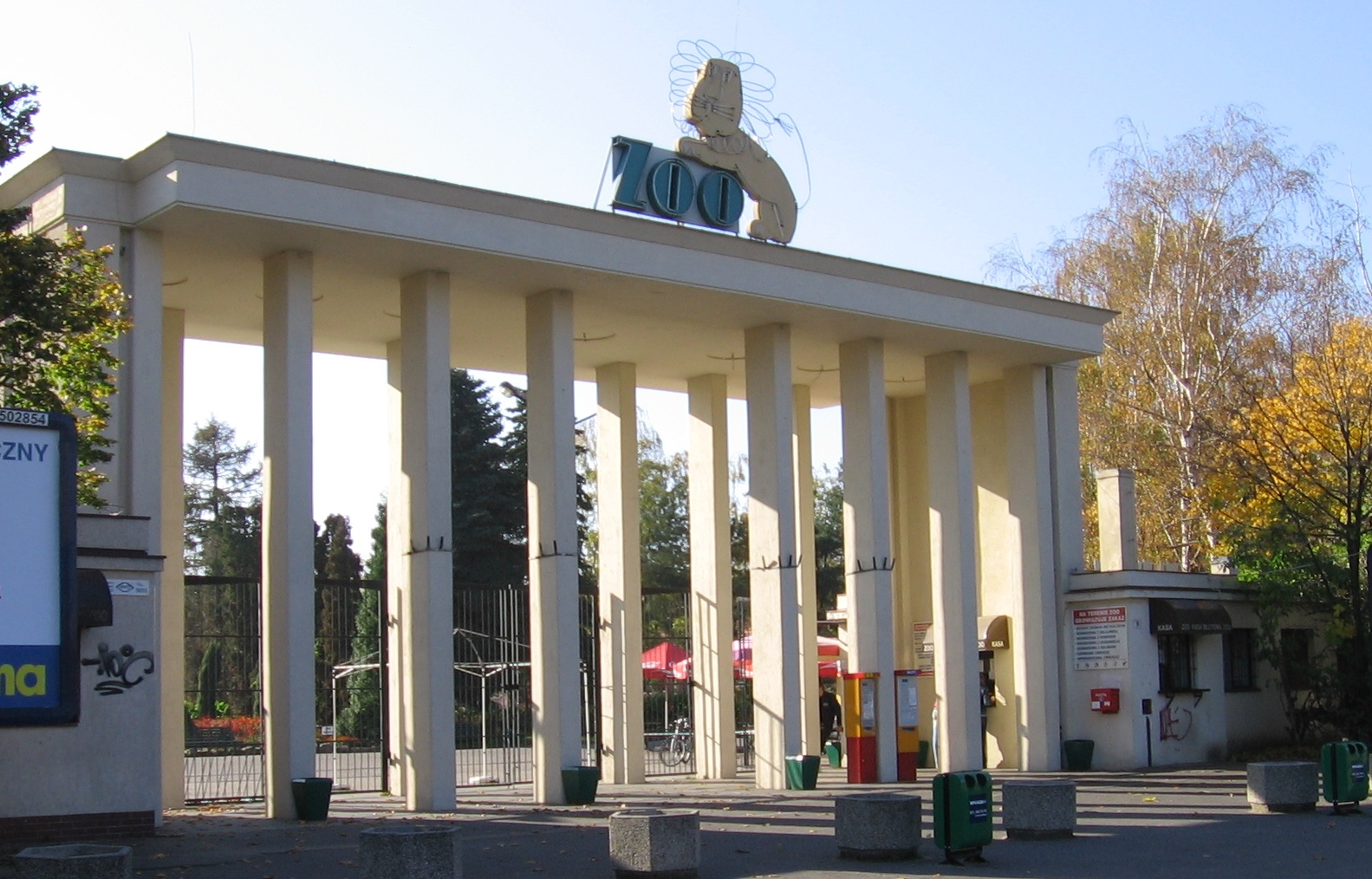 Zoo in Wrocław, Poland - new entrance. Architect Richard Konwiarz